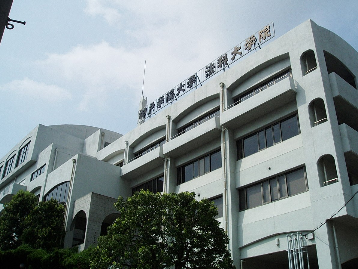 Nishiyama Campus of Kobe Gakuin Women's College (integrated into Kobe Gakuin University in 2005), located in Nishiyama-cho, Nagata-ku, Kobe, Hyogo, Japan.